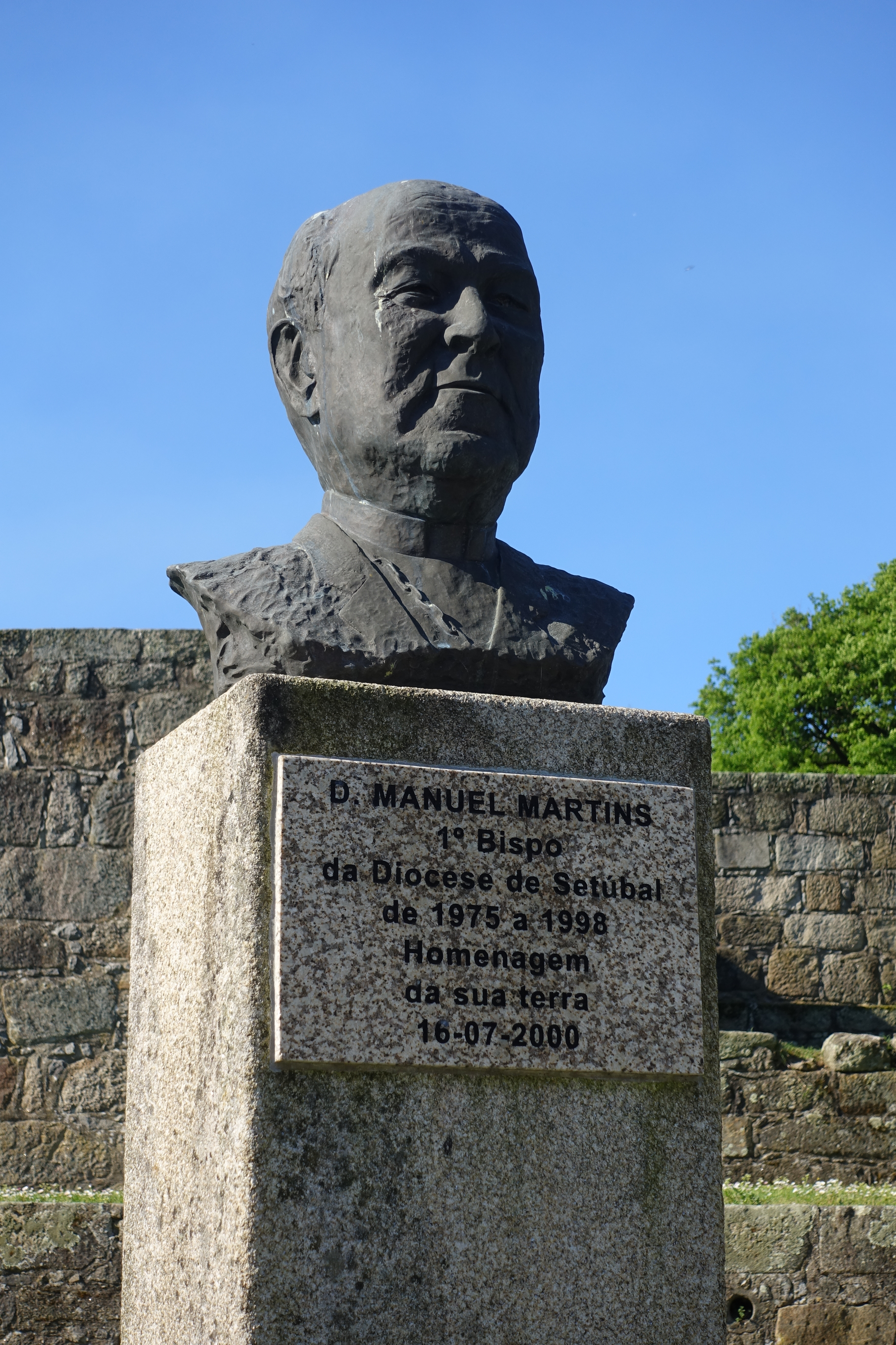 Bust of D. Manuel Martins bishop of the Roman Catholic Diocese of Setúbal in Leça do Balio Porto (district) Portugal.